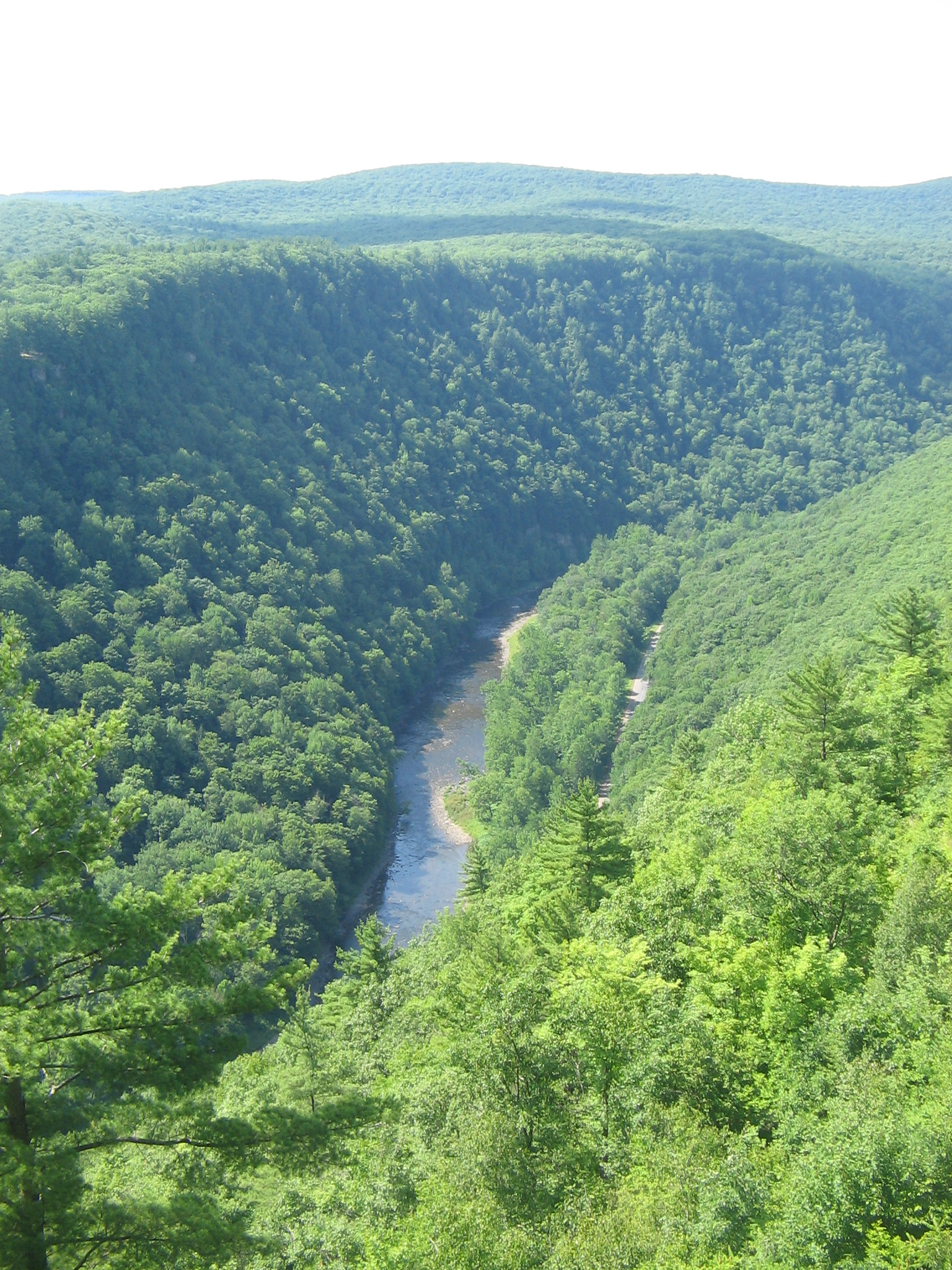 Pine Creek Gorge with Pine Creek and Pine Creek Rail Trail, looking north from the main vista in Leonard Harrison State Park in Shippen Township, Tioga County, Pennsylvania, United States